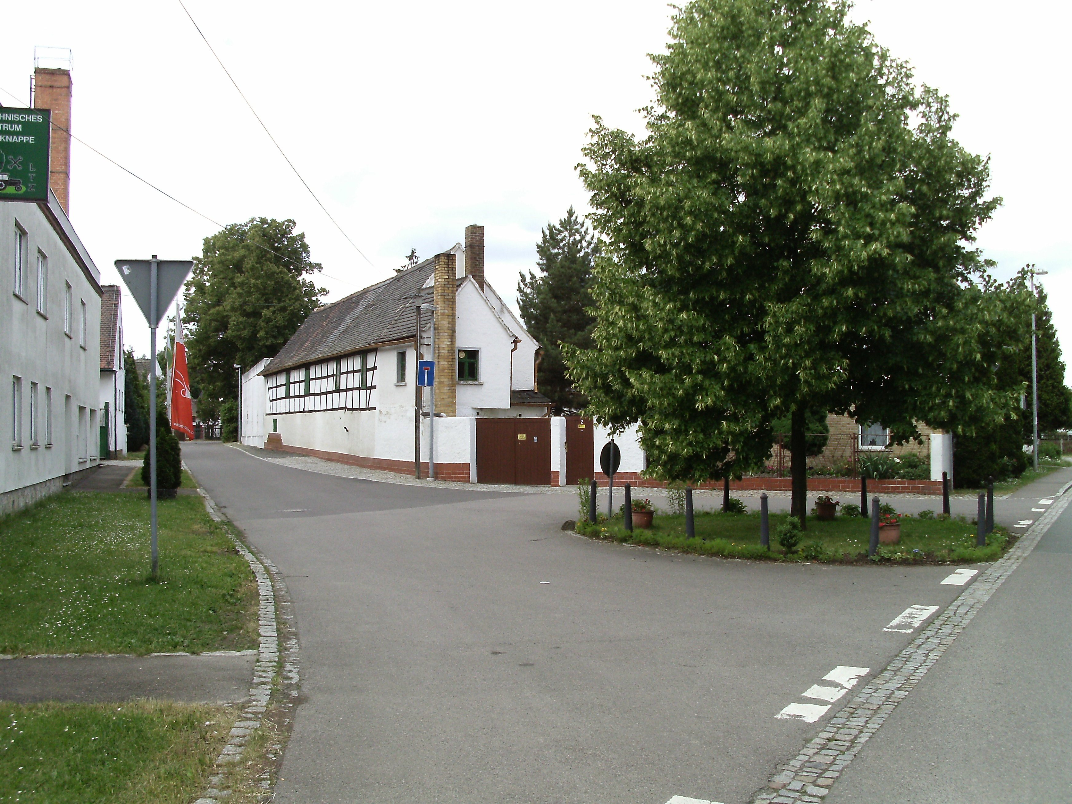 Am Mühlgraben in Kleindalzig (Zwenkau, Leipzig district, Saxony)